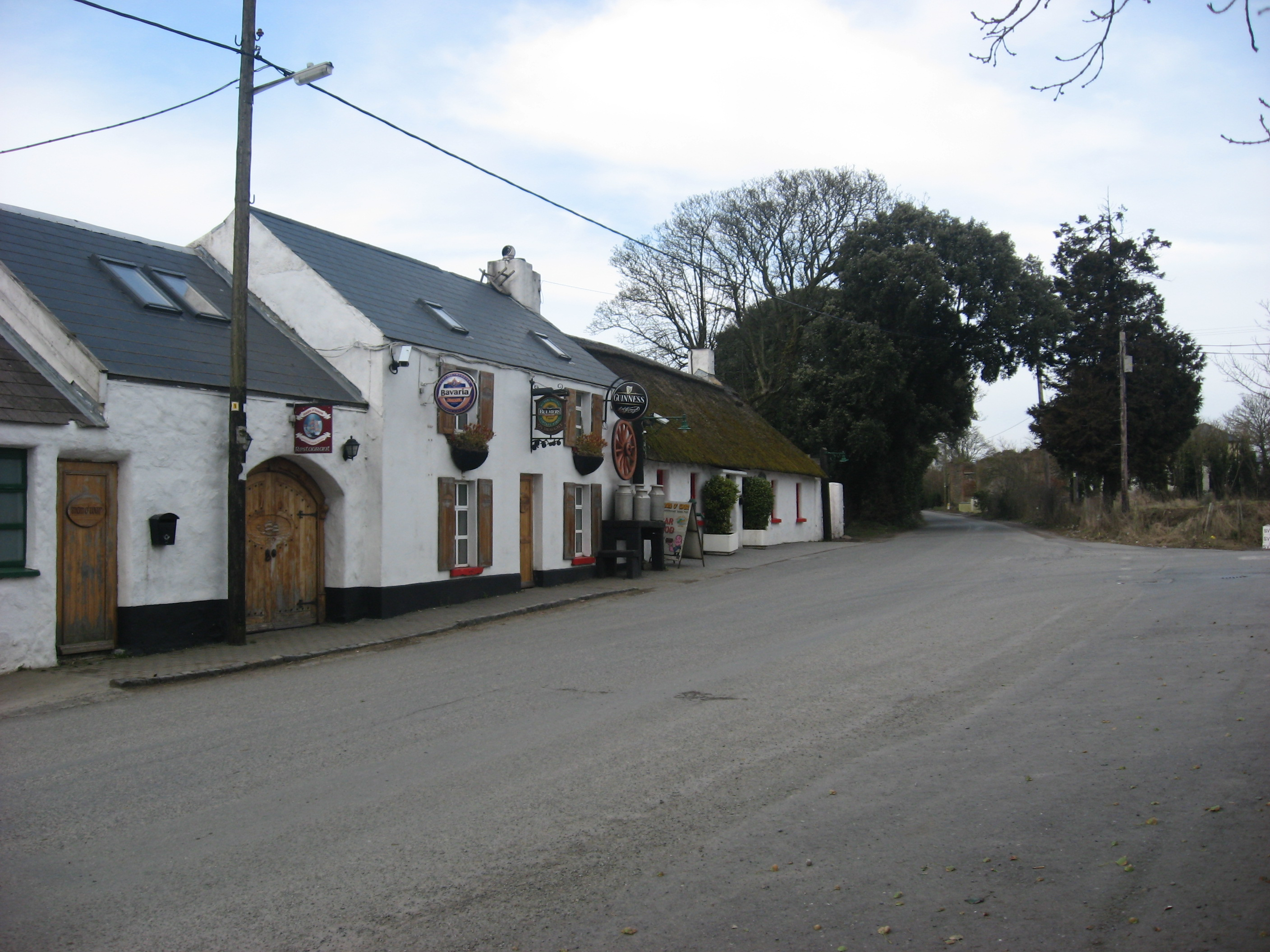 Man O' War Inn, Courtlough, Co. Dublin Once a staging post on the Turnpike road from Dublin to Drogheda. Rocque's map of Co. Dublin, published 1760, shows 'Turn Pike' and 'the Man of War Inn' here.